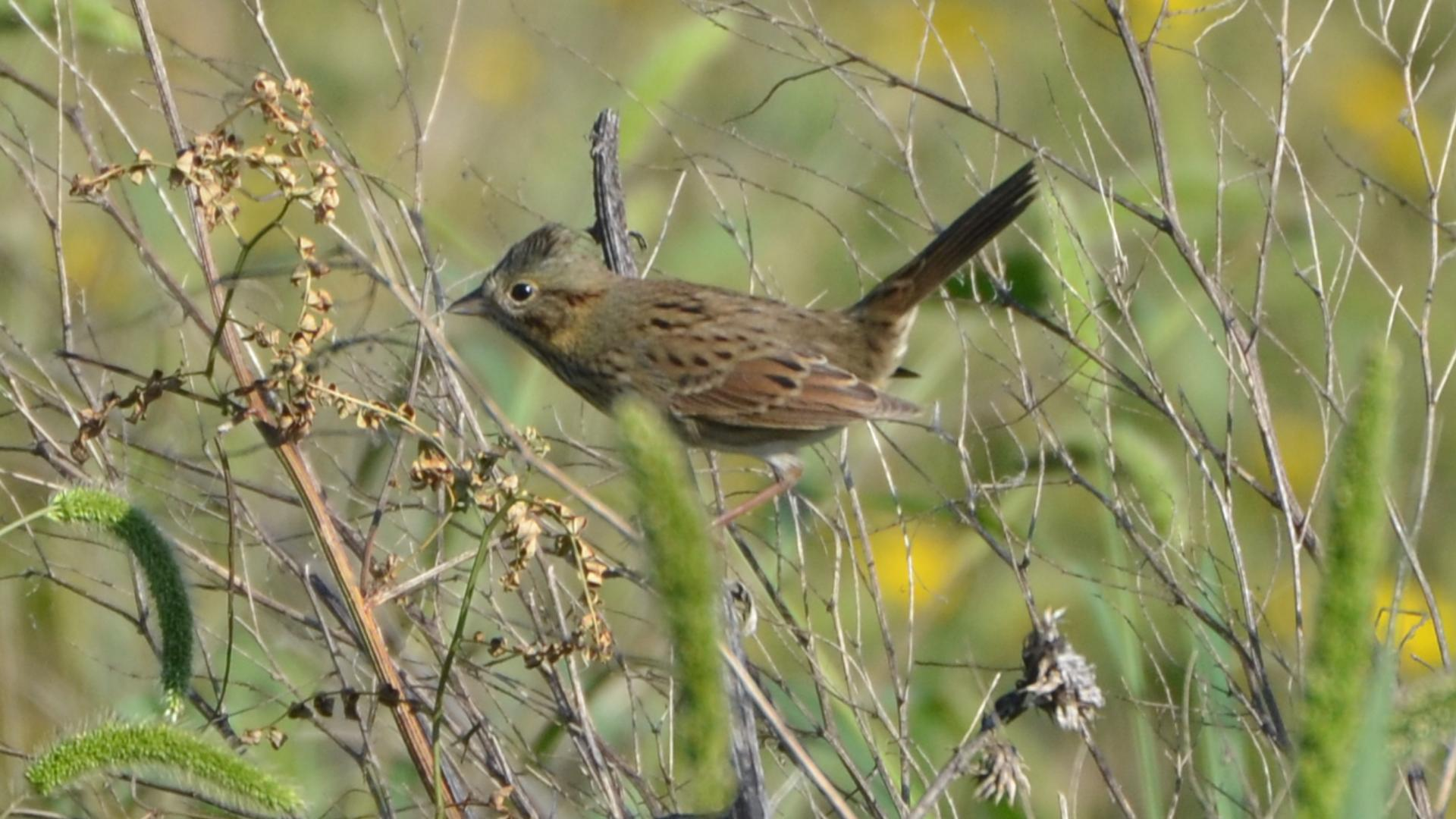 Riverland Migratory Bird Sanctuary in Alton Missouri on 10/20/12